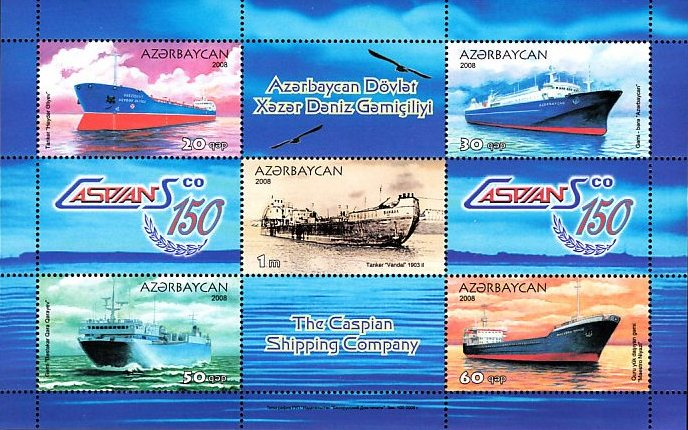 Stamp of Azerbaijan, 2008. The 150th Anniversary of the Caspian Shipping Company.